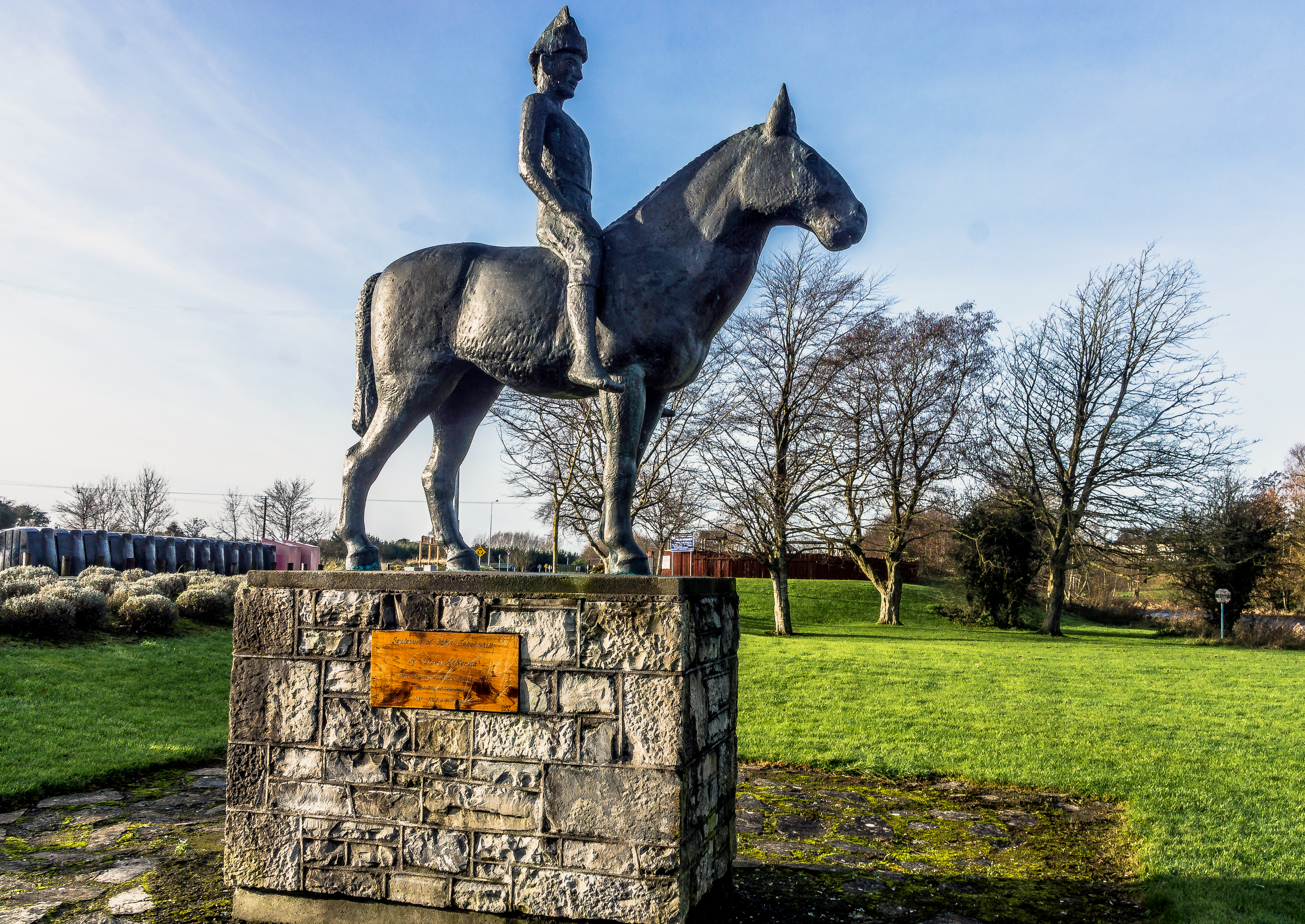 A sculpture of Máel Seachnaill in Trim, Co. Meath, by James McKenna.